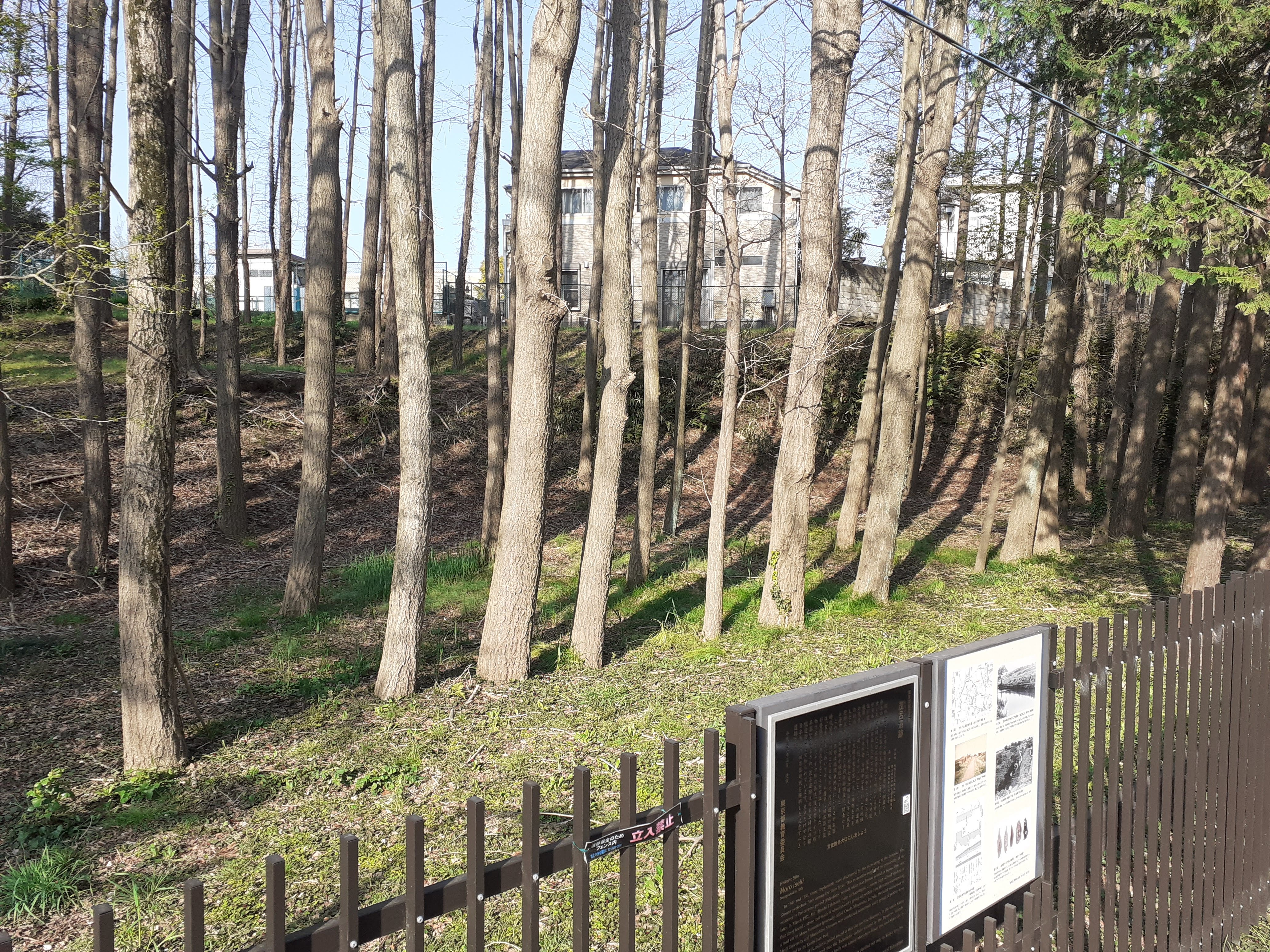 Wooded area of Moro Heritage Site in Itabashi-ku, Tokyo, Japan.